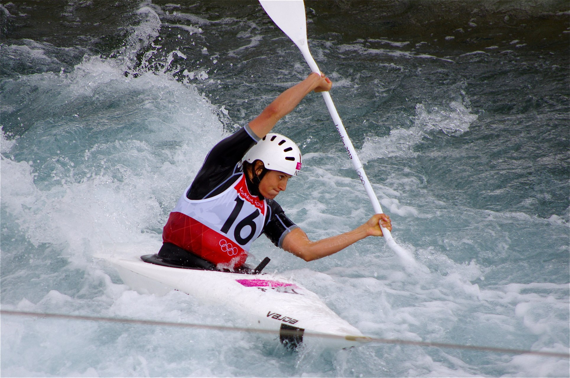 Canoeing at the 2012 Summer Olympics – Women's slalom K-1 Luuka Jones (NZL)